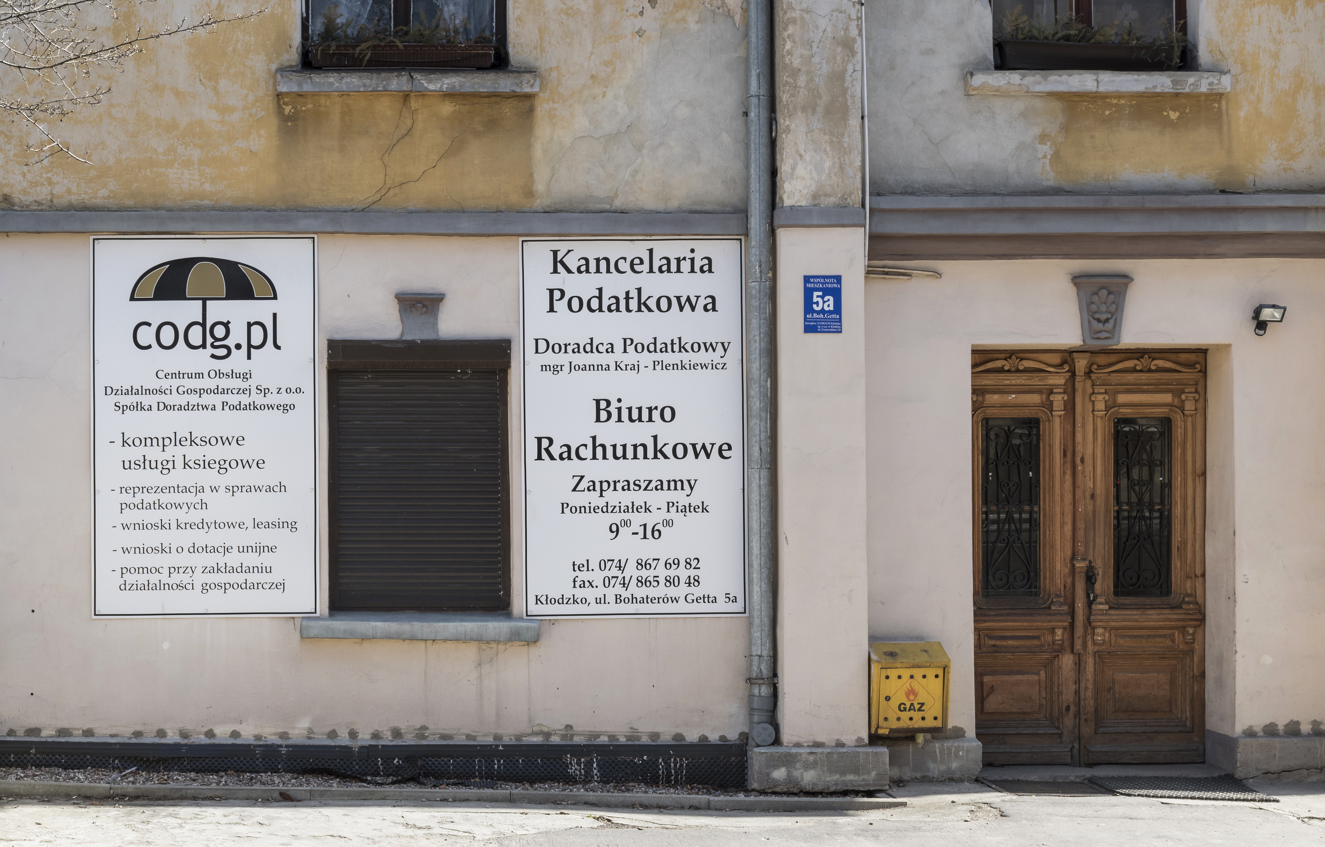 Accounting office in Kłodzko